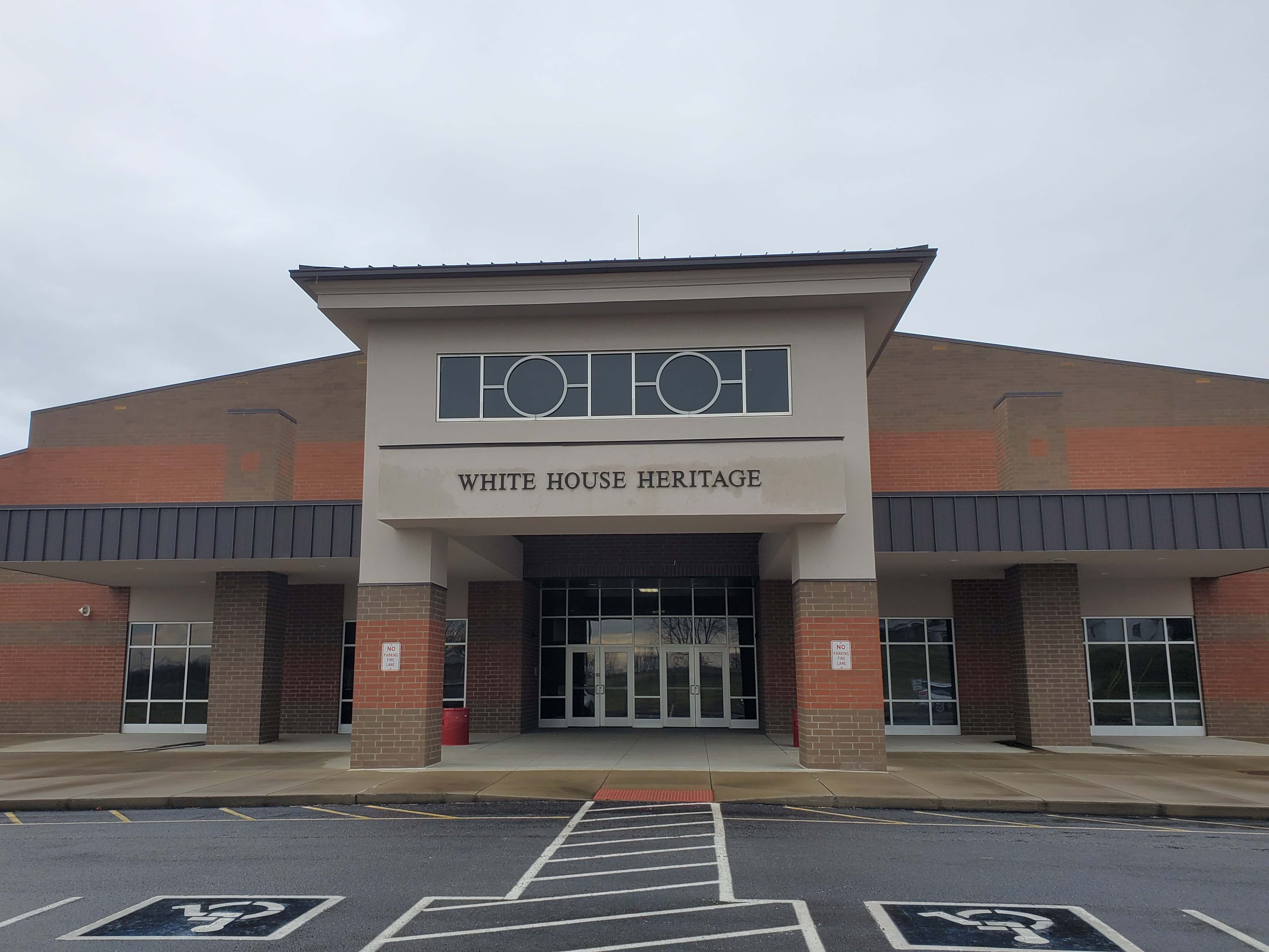 White House Heritage High School's main entrance on January 26, 2020